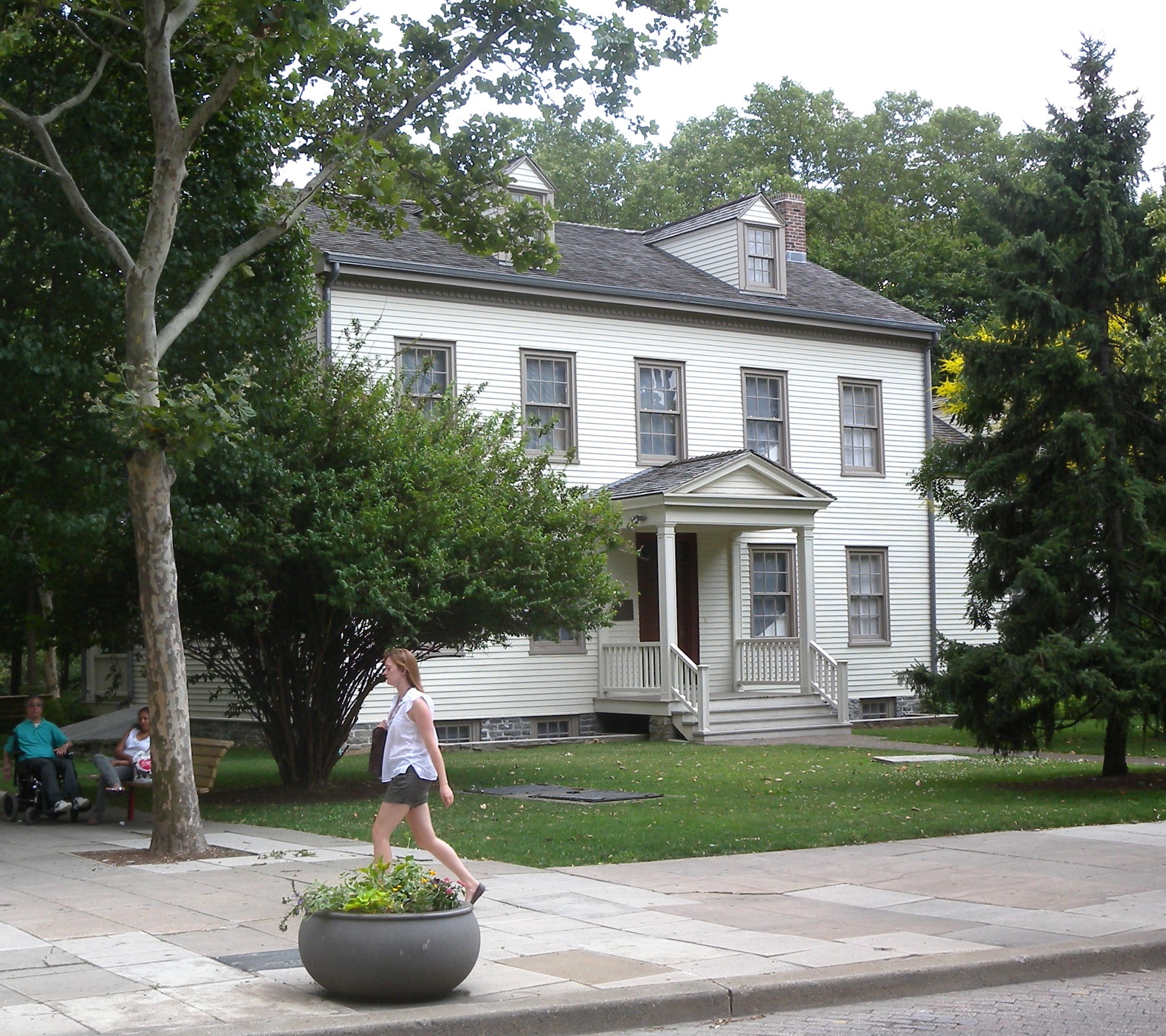 Looking south at Blackwell House on a cloudy midday.